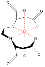 Structure of a nonspecific metal EDDS complex.